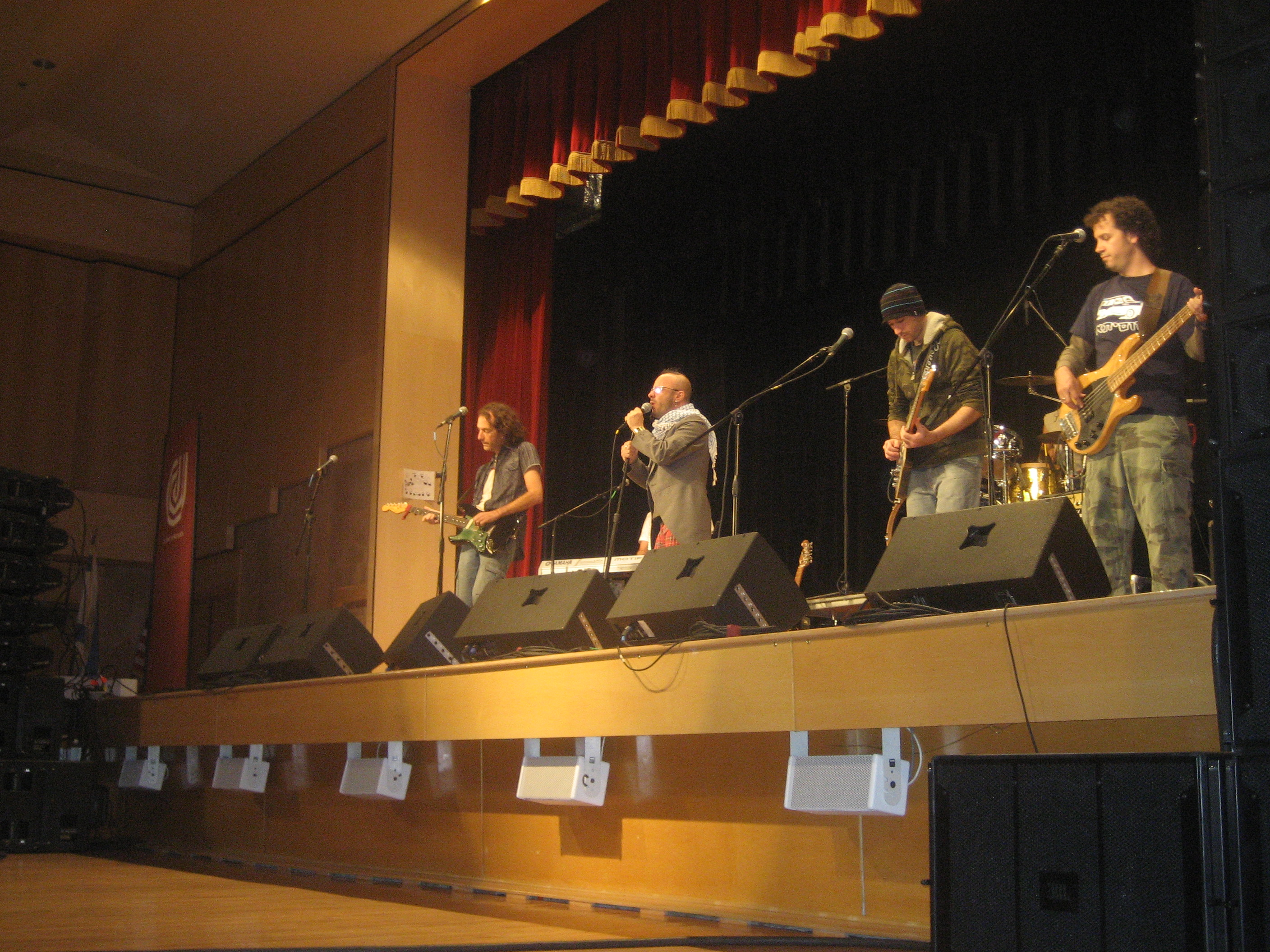 Teapacks on stage in the JCC of Tenafly, NJ.